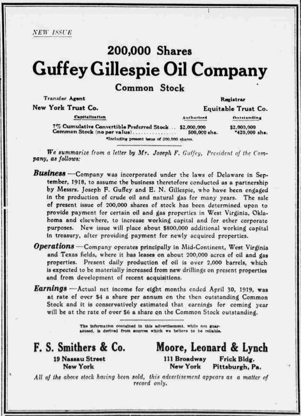 Guffey Gillespie Oil Company ad in The Sun, July 21, 1919, Chronicling America, Library of Congress